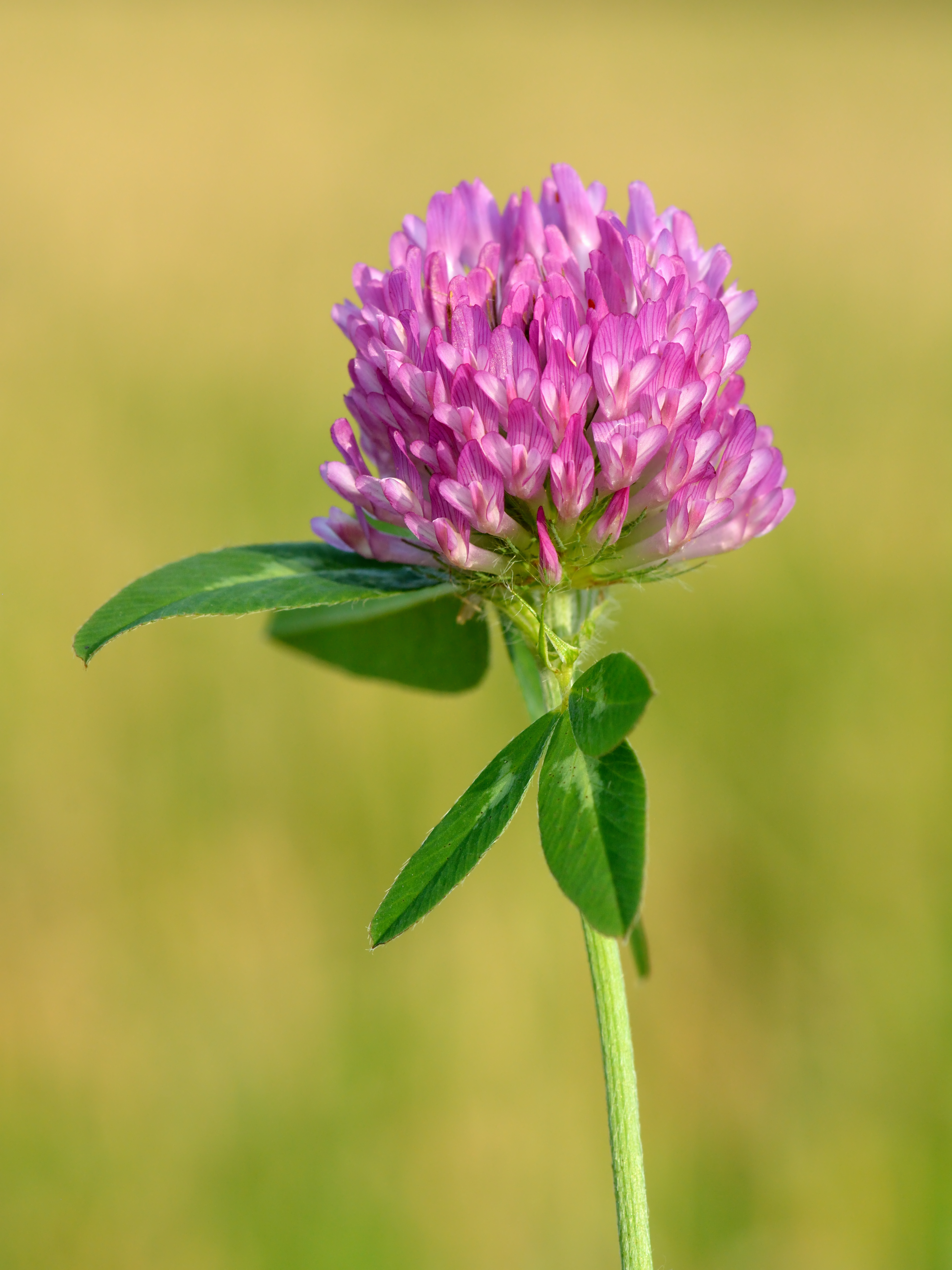 Red clover (Trifolium pratense). Keila, Northwestern Estonia.